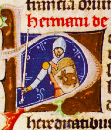 Miniature of knight Herman, ancestor of the Hermán kindred, and thus the Lackfi family